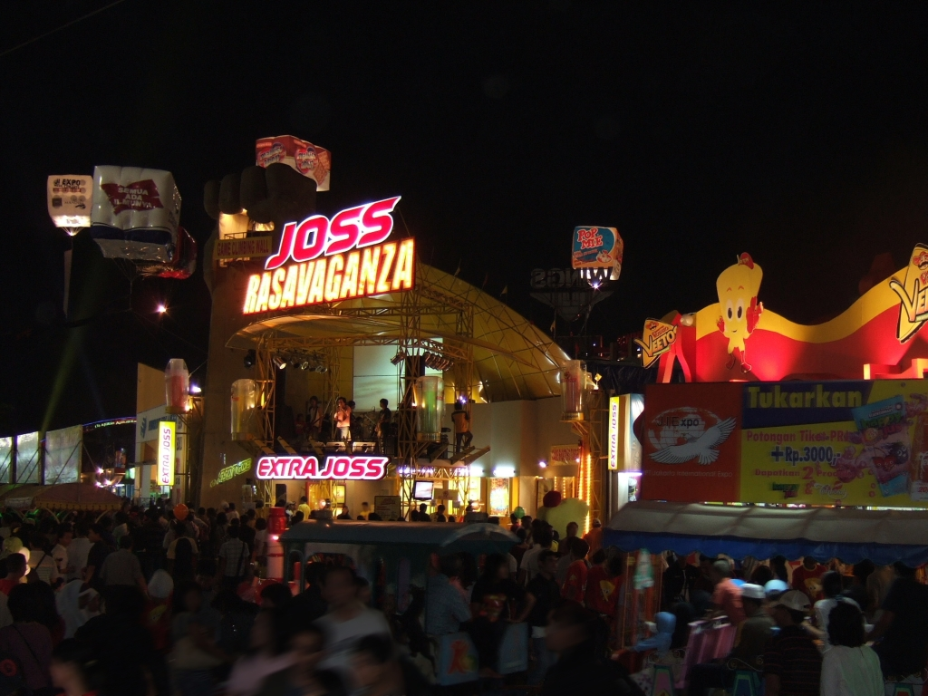 Jakarta Fair arena 2007